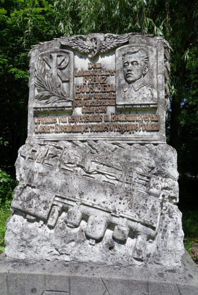 Denkmal für verunglückten Lokführer 1928 von Schagerl senior